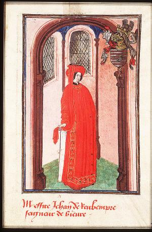 Statuts, Ordonnances et Armorial de l'Ordre de la Toison d'Or (Statutes, Ordonnances and armorial of the Order of the Golden Fleece) Place of origin, date: Southern Netherlands; 1473. Added sections: Southern Netherlands; 1478 or shortly after and 1491 or shortly after Material: Vellum, ff. 86, 249x187 (167x106) mm, 23 lines, littera cursiva (lettre bourguignonne). French. Binding: 18th-century brown leather Decoration: 1 full-page miniature (170x115 mm) with border decoration; 92 miniatures (185/155x120/100 mm); 1 historiated initial (80x90 mm) with border decoration; decorated initials with border decoration (ff., Added section: miniatures ; 4 drawings for miniatures (not finished) Provenance: Presented in 1473 by Gilles Gobet, King of Arms of the Order of the Golden Fleece, to Charles the Bold, Duke of Burgundy and the other Knights during the Chapter of the Order held at Valenciennes; Treasure of the Golden Fleece, Brussls; taken away by the Treasurer C.-F. Humyn (d. 1735) or his daughter C.Ch. de Corte; by legacy to her daughter M.-L. de Corte, wife of Ph.-E. de Poederlé; purchased in 1781 at the Poederlé sale by G.-J- Gérard of Brussels; acquired in 1832 as part of the Gérard collection (no. A 27)